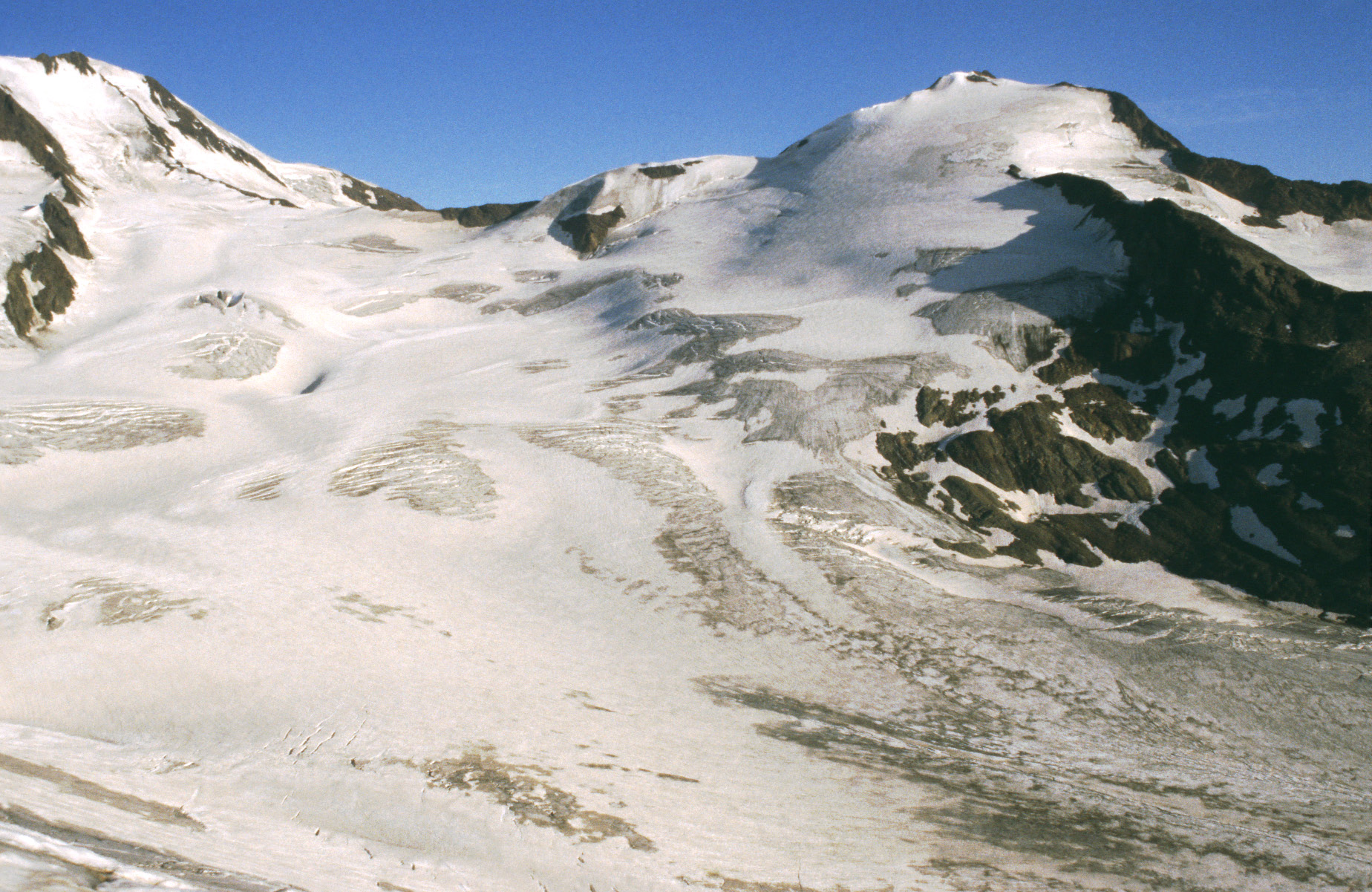 Langtauferer Spitze from south, leftmost the Weißkugel. In the foreground the Hintereis Glacier.